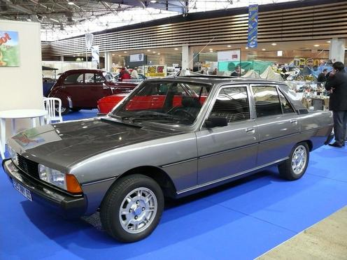 My Peugeot 604 GTI 1984, at the Epoq'Auto Show France/Rhône in November 2007